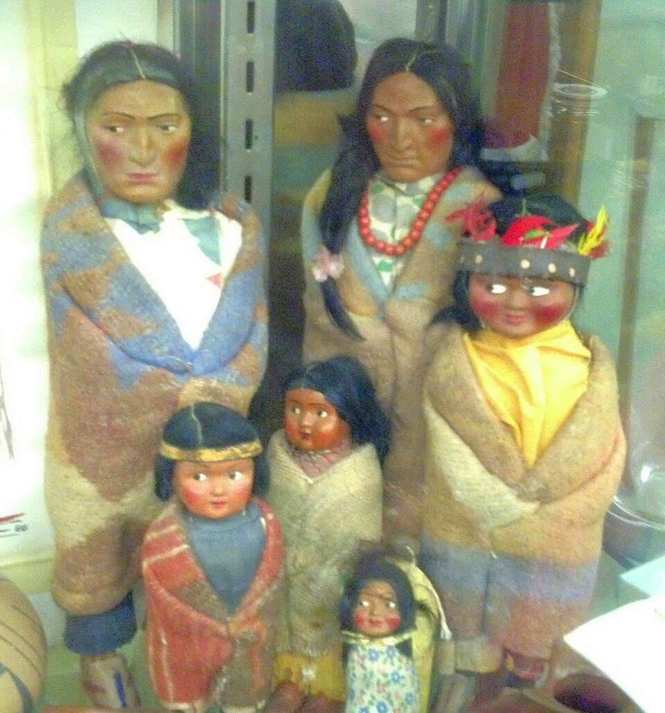 A photo of six Skookum dolls at an antique shop in Martinez, California. Photo by Jim Heaphy.